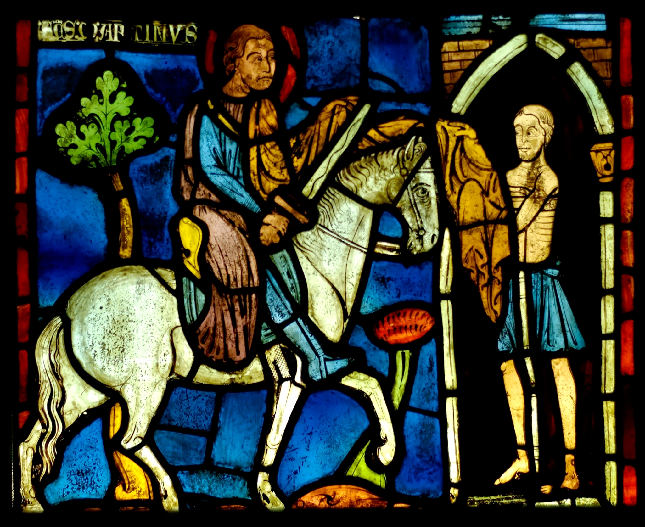 St. Martin cutting his cloak. Stained glass, region of Paris (church of Varennes or abbey of Gercy), ca. 1230.